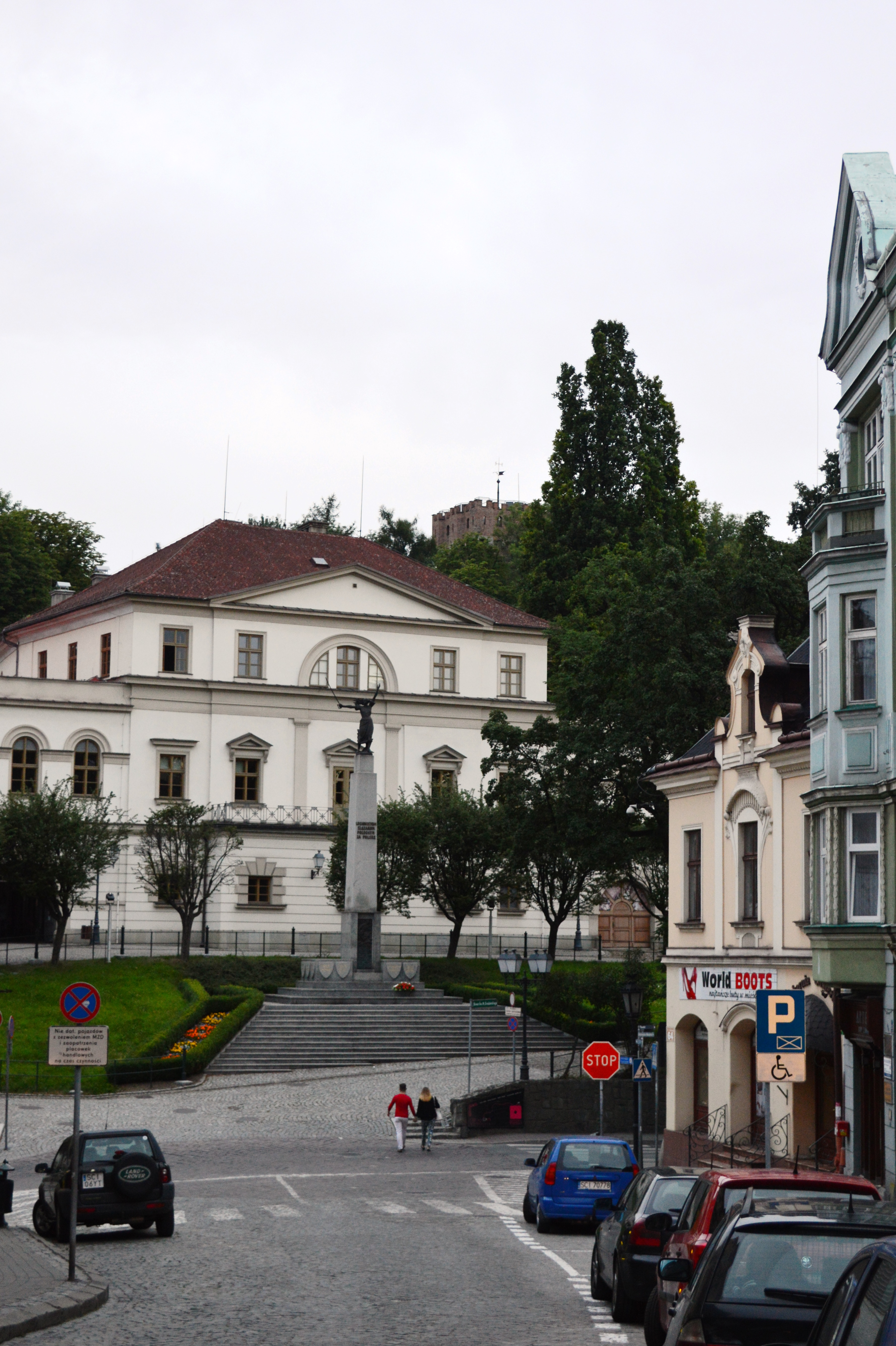 Former Hunting Palace of the Habsburgs built in 1840 is now State School of Music. The Music School with monument commemorating fallen Silesian legionaries in the foreground is located at Zamkowa Street on Castle Hill in Cieszyn.